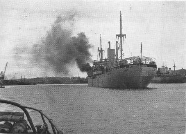 Norwegian "kvarstadship" M/S Dicto is towed out from Gothenburg harbour, Sweden, in end of May 1945. The destination is Hull in England.